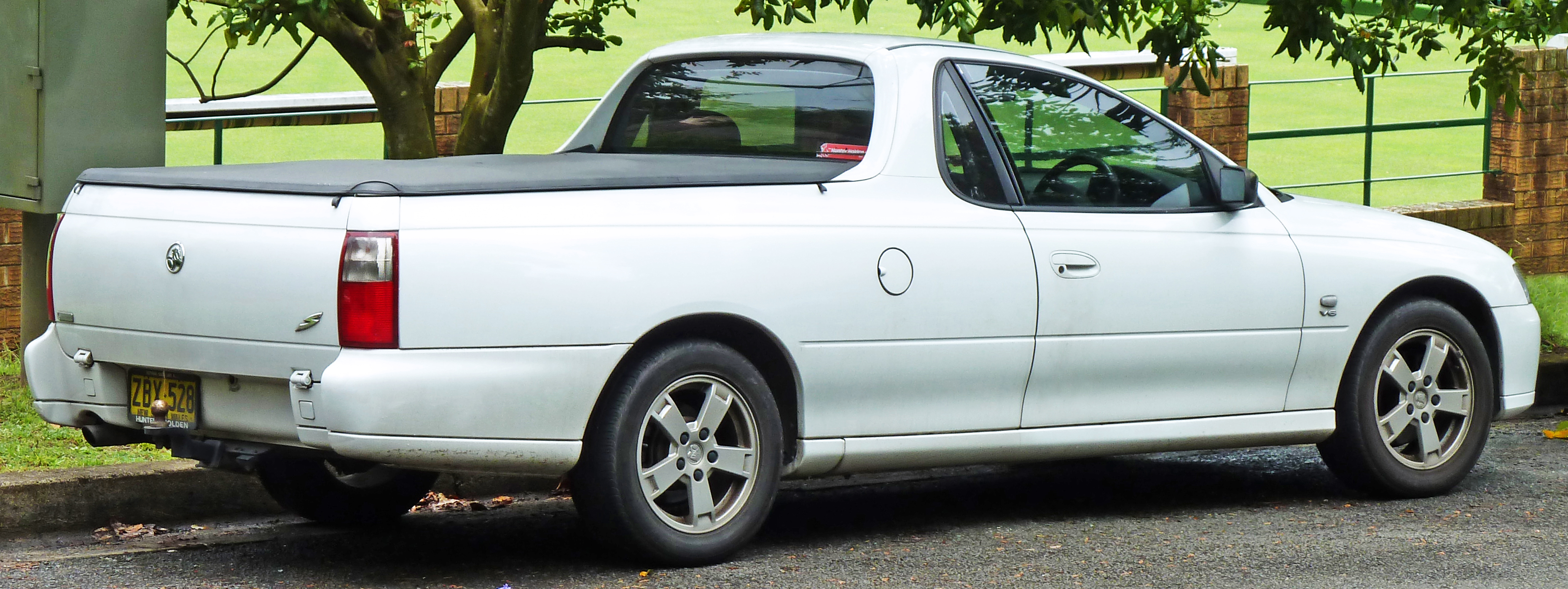 2002–2003 Holden VY Ute S. Photographed in Killara, New South Wales, Australia.